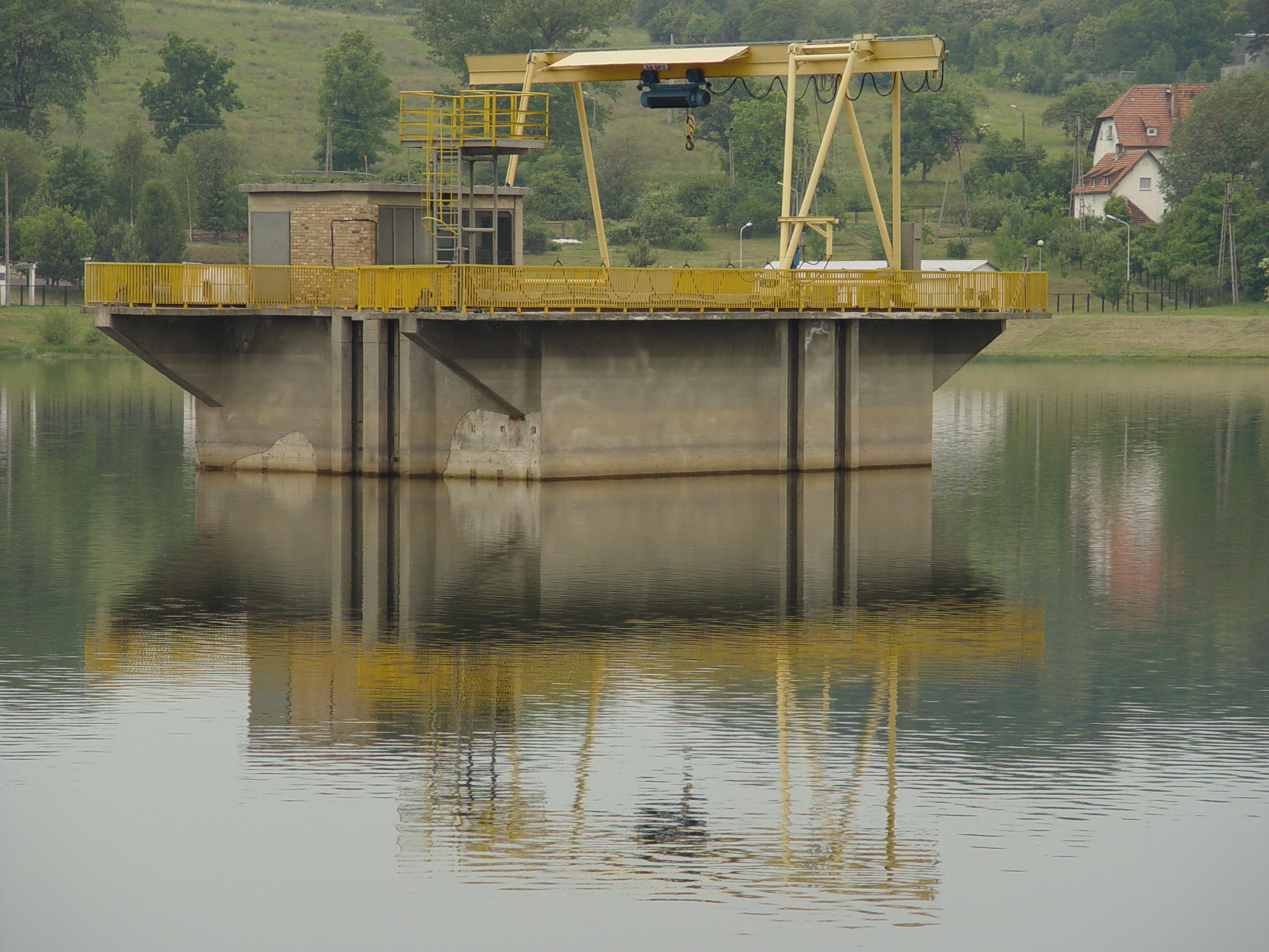 Dobromierz Lake, Lower Silesian Voivodship, Poland